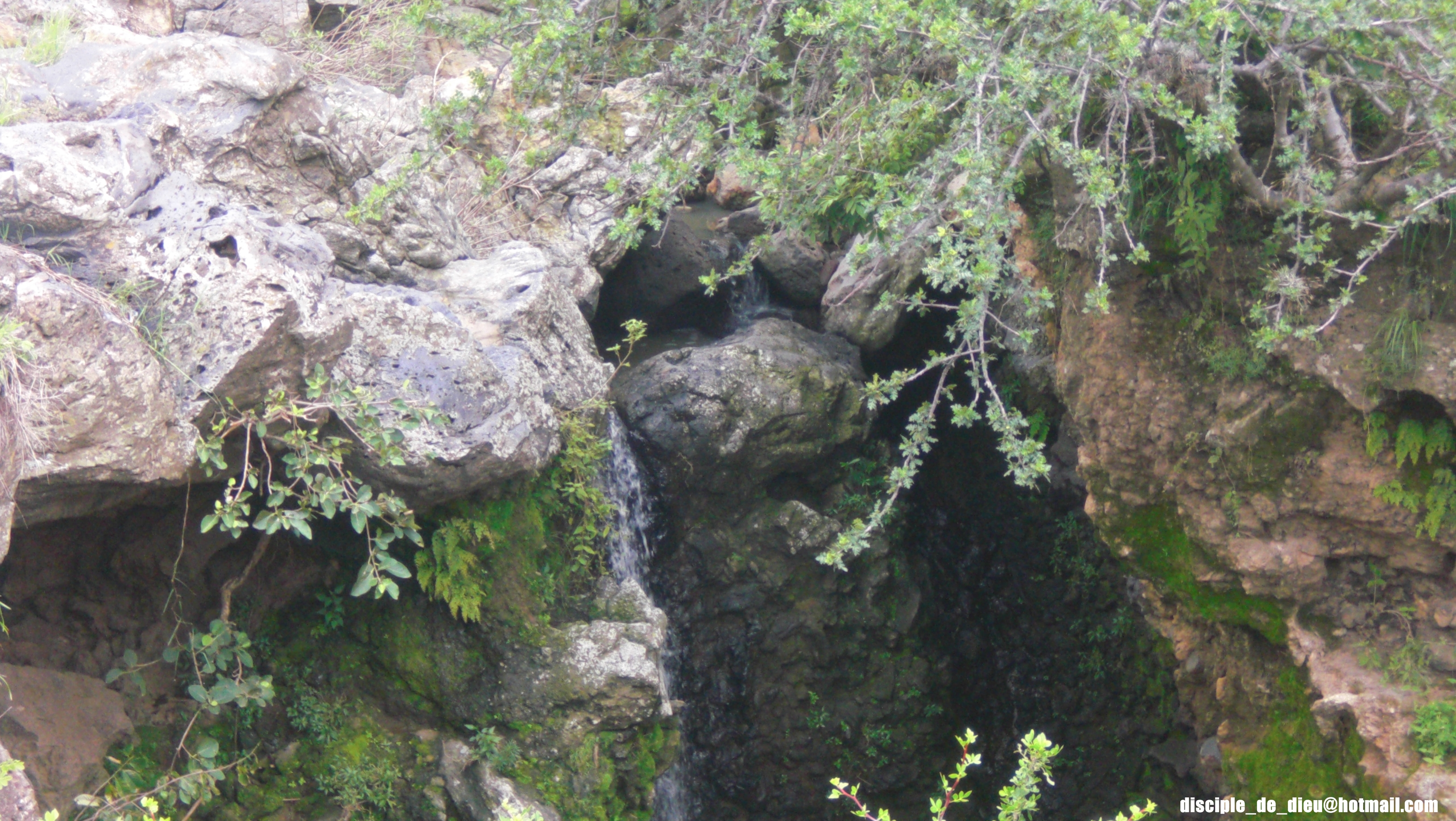 Barranca